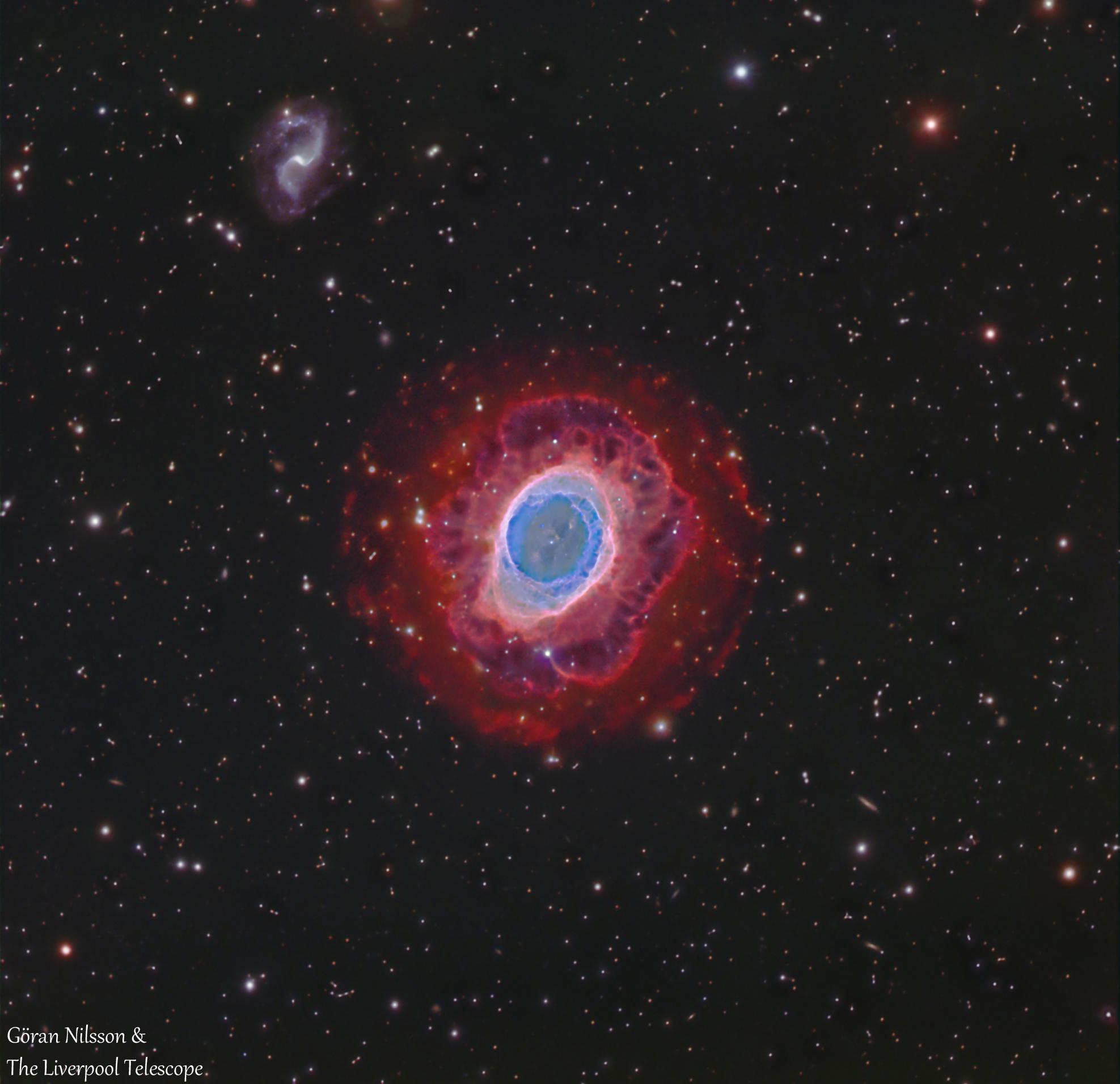 HaRGB image of The Ring Nebula (M57) showing the faint outer shells. Data from the Liverpool Telescope (a 2 m RC telescope on La Palma) processed by Göran Nilsson. 67 exposures totalling 1.9 hours Center (RA, hms): 18h 53m 35.091s Center (Dec, dms): +33° 01' 39.893" Size: 9.99 x 9.67 arcmin Radius: 0.116 deg Pixel scale: 0.303 arcsec/pixel Orientation: Up is 90 degrees E of N